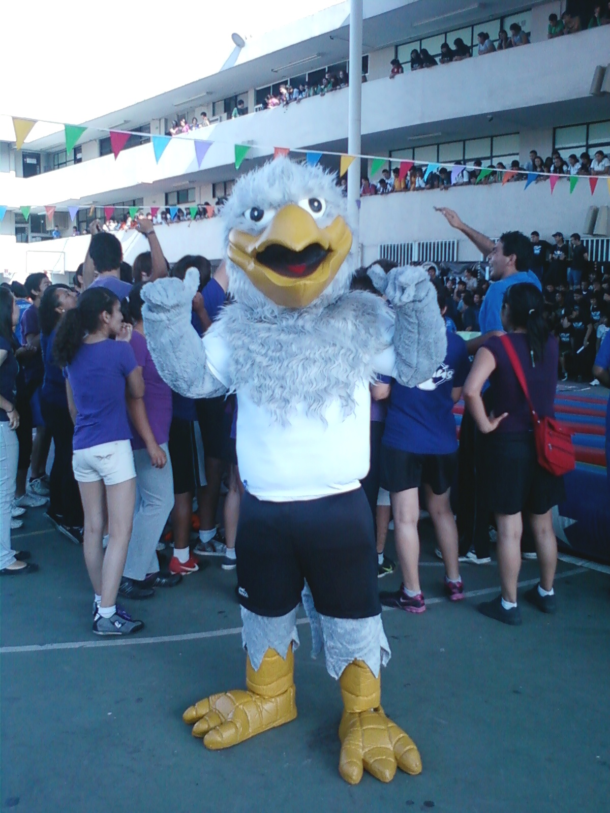 The Falcon, the mascot of the EIPTPL in its 90 anniversary